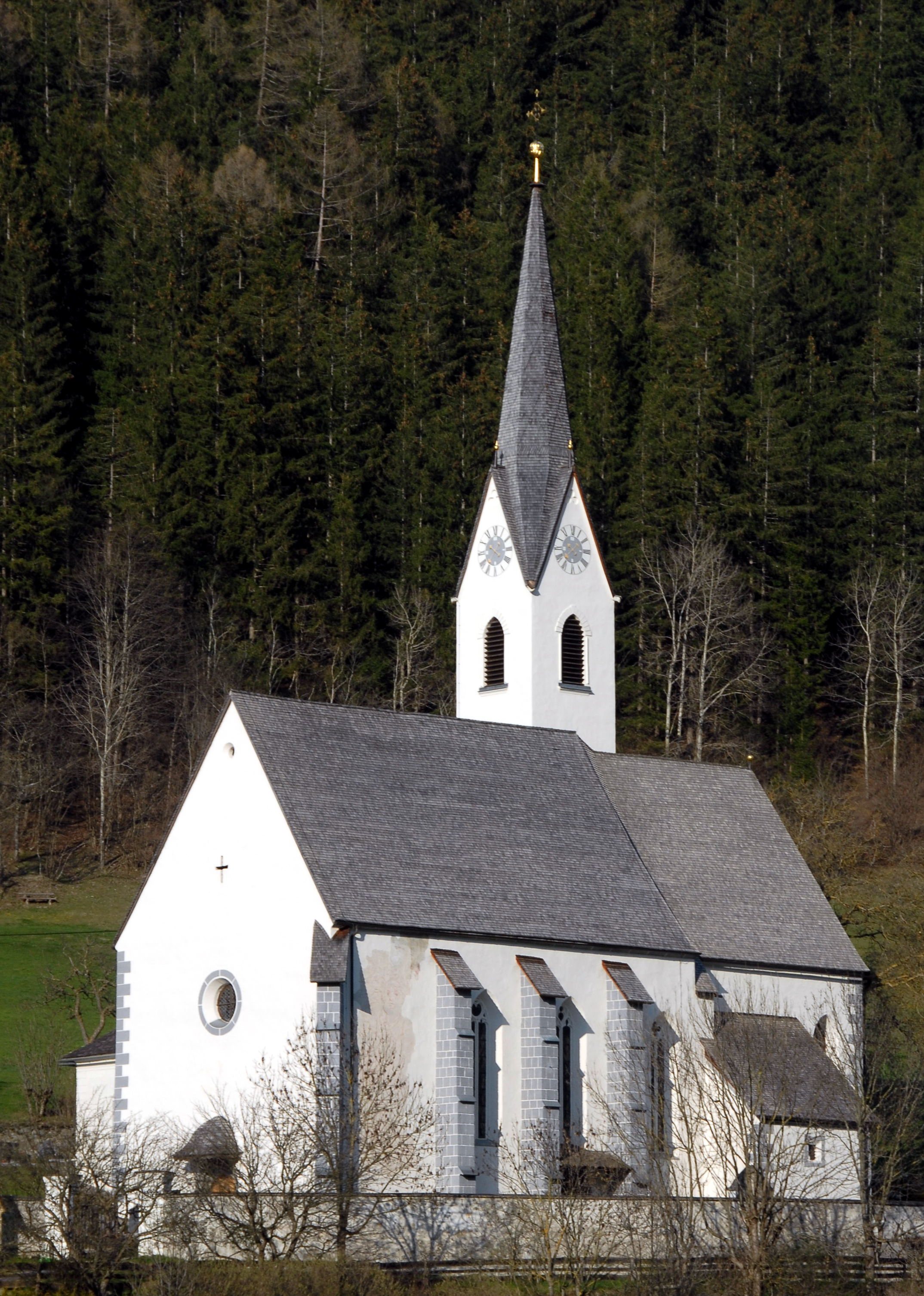 Subsidiary church of Stallhofen at the community Obervellach in the district of Spittal by the Drau, Carinthia, Austria